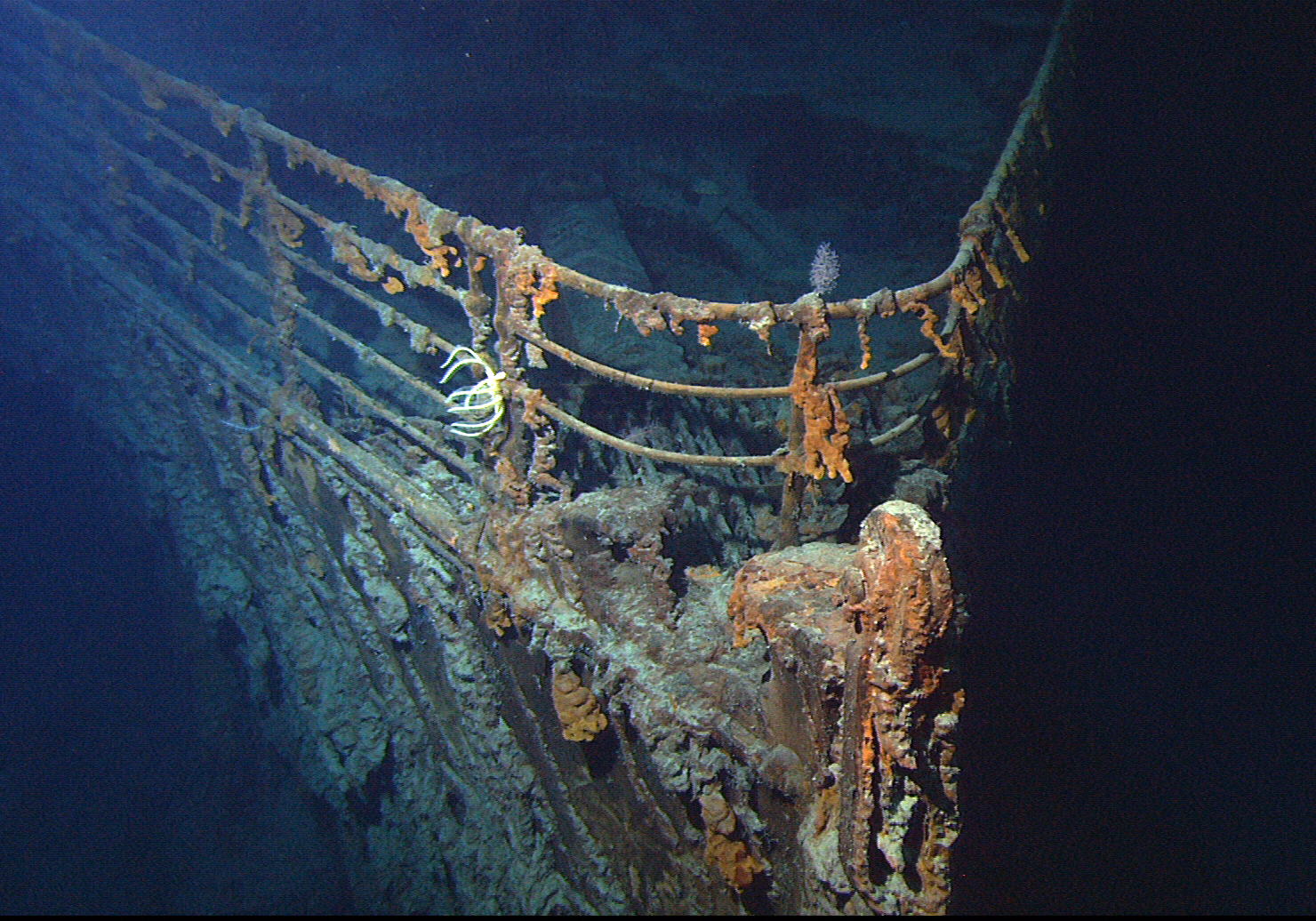 View of the bow of the RMS Titanic photographed in June 2004 by the ROV Hercules during an expedition returning to the shipwreck of the Titanic.